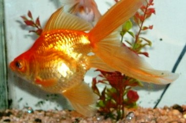 Fan tailed gold fish